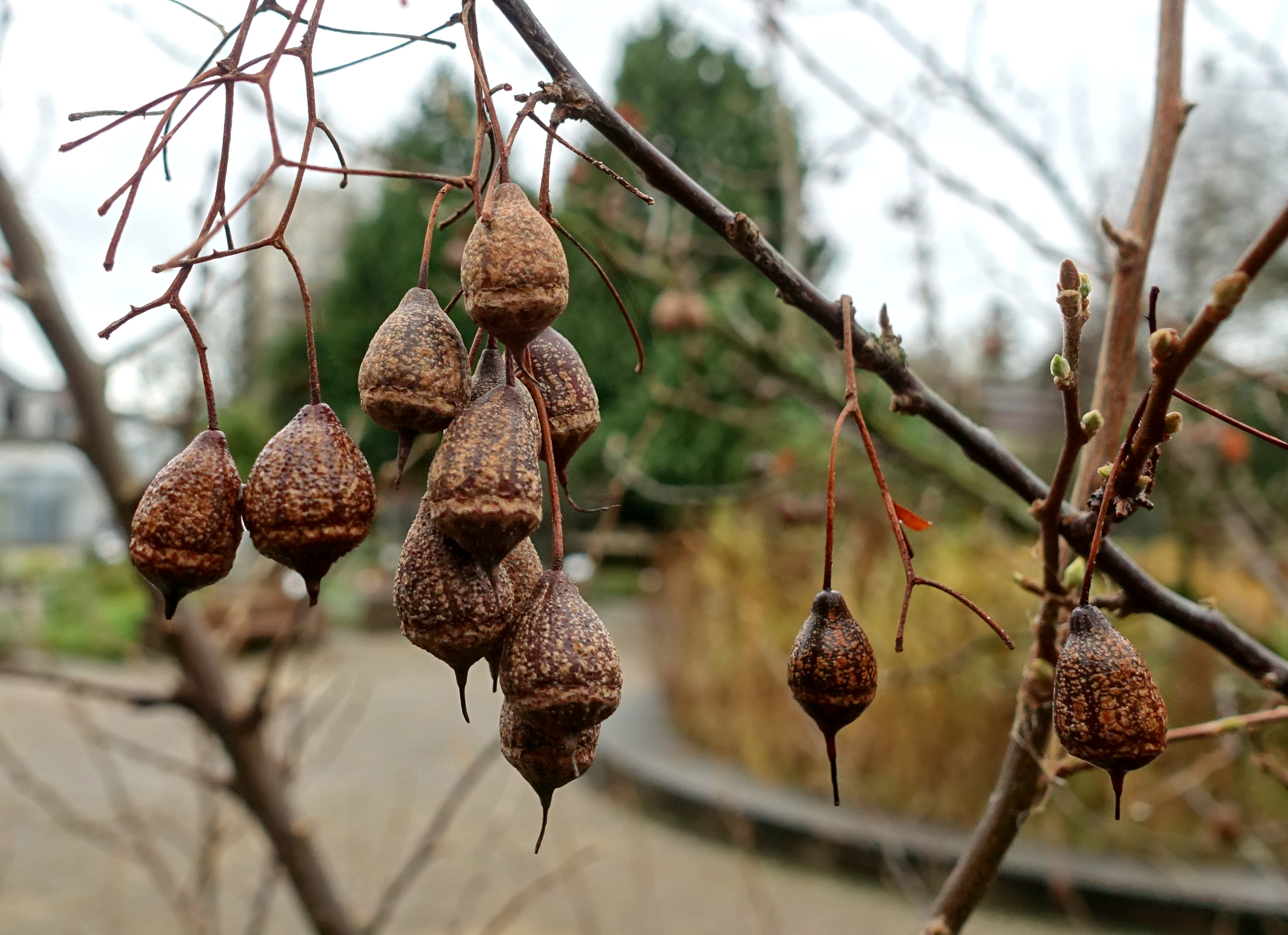 Botanical specimen in the Botanischer Garten - Heidelberg, Germany.